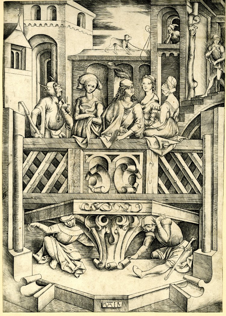 The balcony; a young man is surrounded by three courtesans and a jester. Engraving by Mair von Landshut British Museum, 1884,0412.21